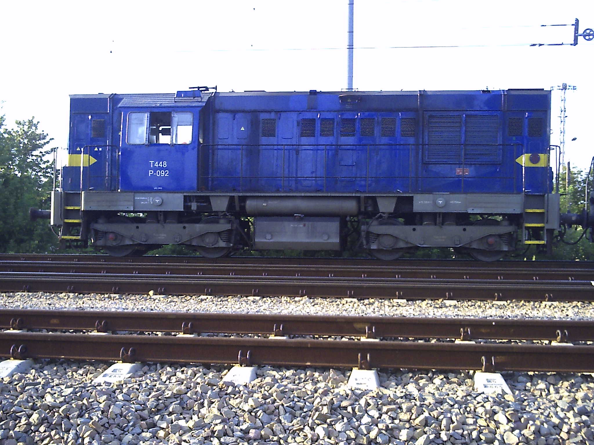 Diesel class locomotive T448P-092.